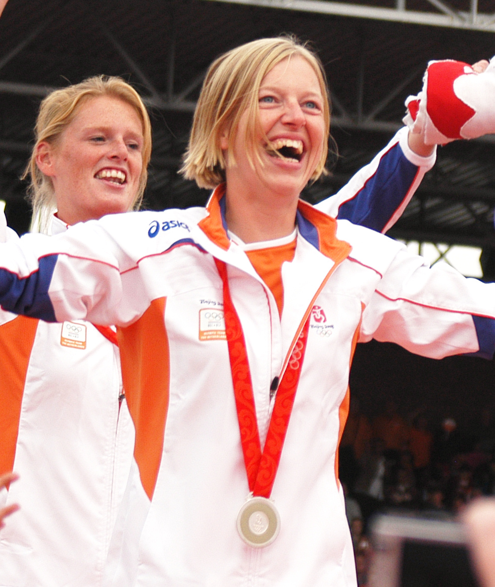 Ester Workel at the Olympic welcome in the Olympic Stadium in Amsterdam, the Netherlands.